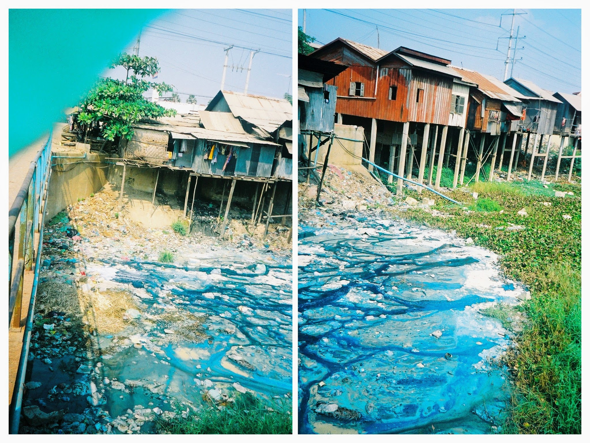 Indigo-colored polluted water in Phnom-Penh, Cambodia, 2005